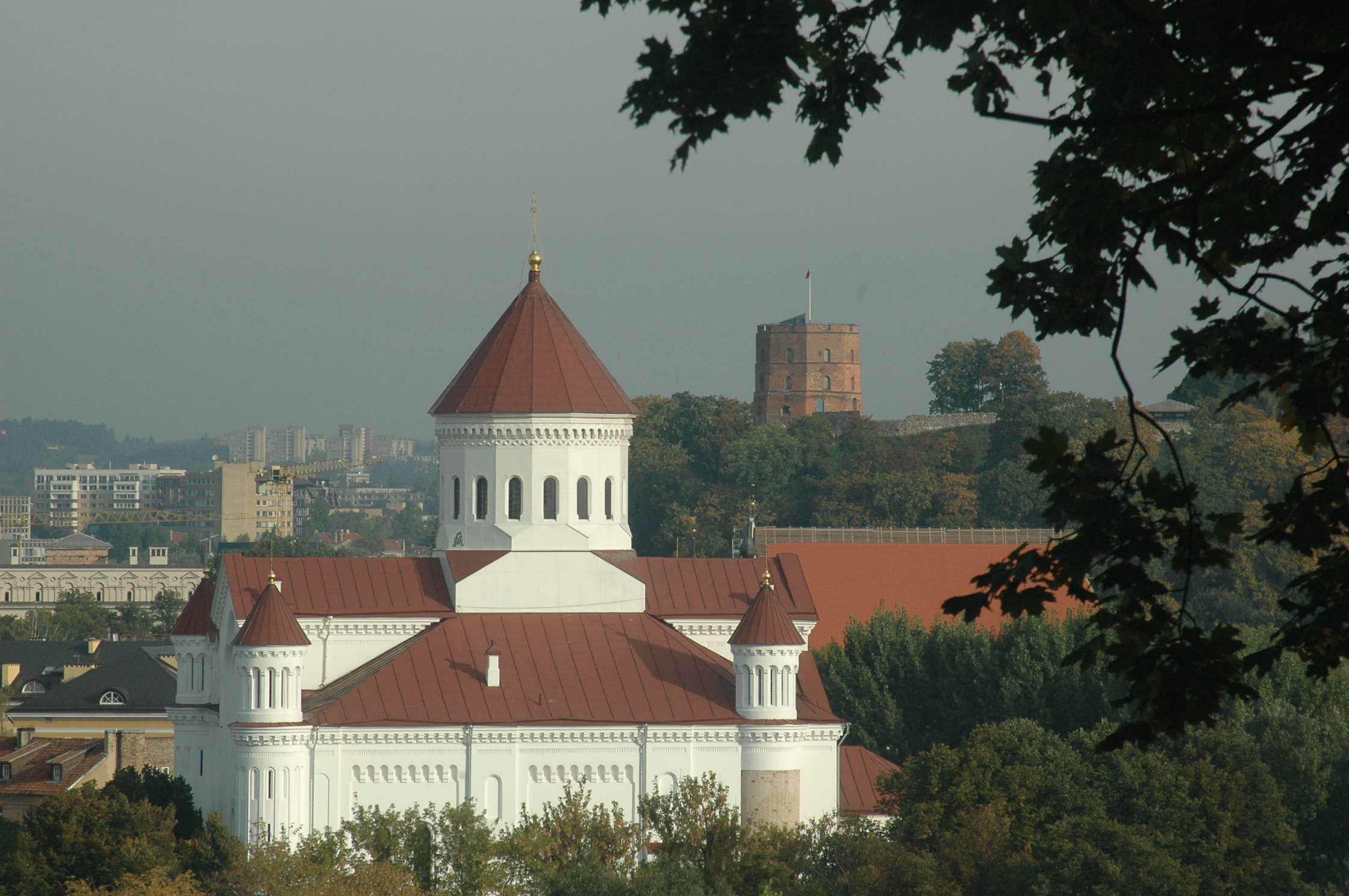 The Dangų cathedral and it in the background the castle of Vilnius, Lithuania